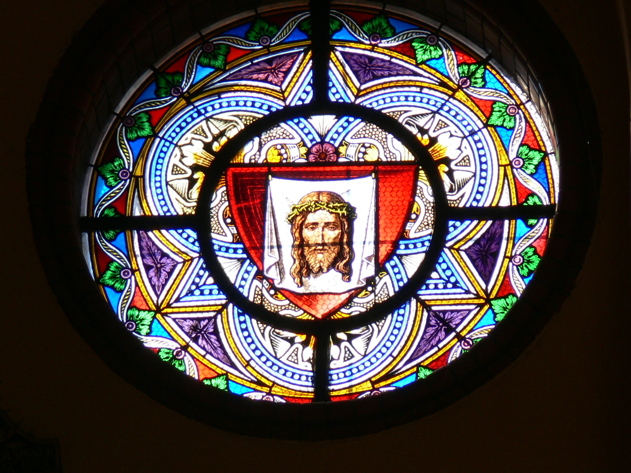 Aigen parish church. Gothic revival stained glass window showing the veil of Veronica.